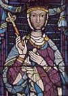 Ermesinde of Luxembourg